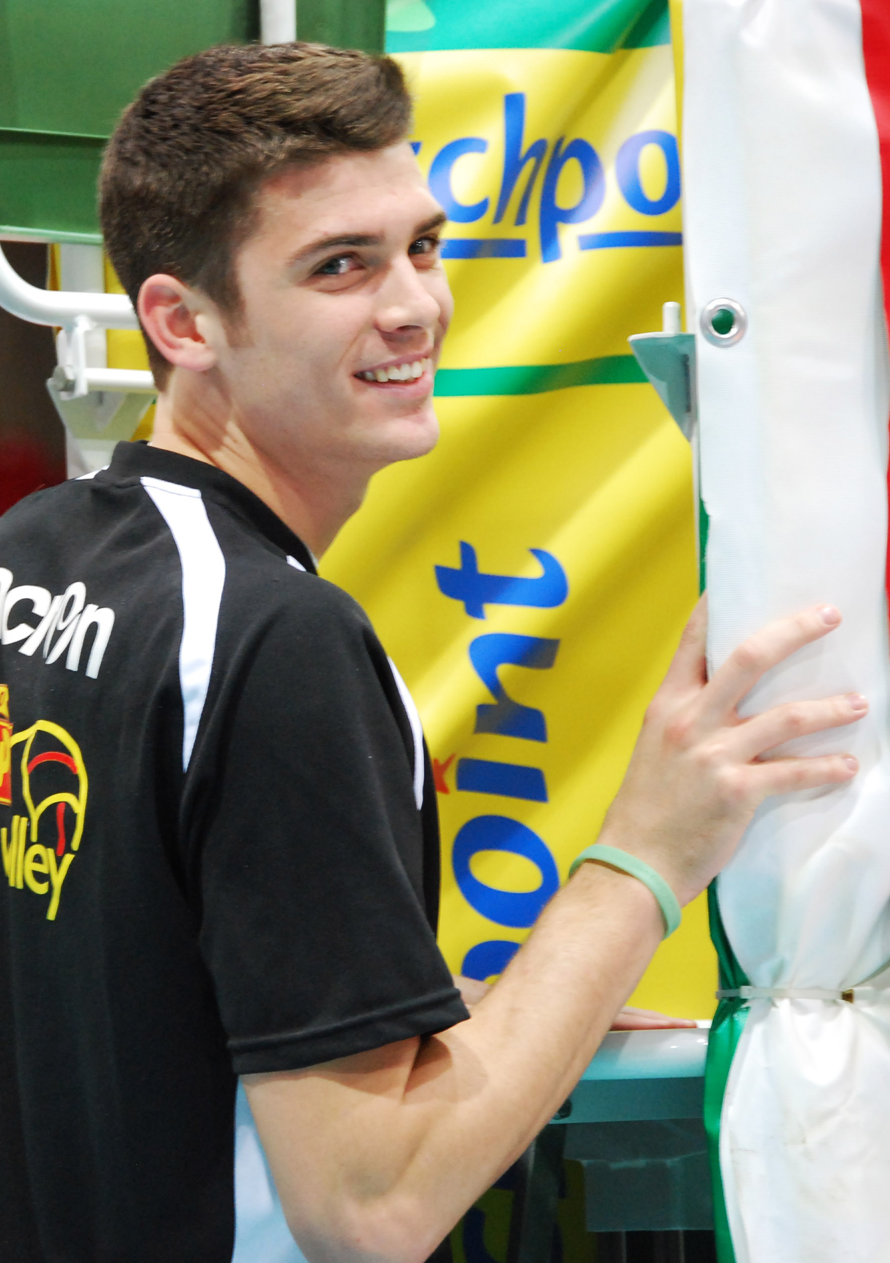 I took this pic during a volleyball match in Piacenza.